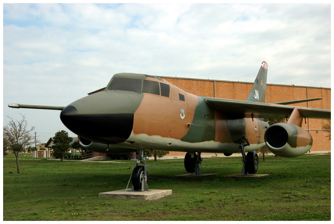 Front view of a Douglas WB-66D "Destroyer". Lackland Air Force Base, San Antonio, Texas (March 2007). Photo by Peter Rimar. This image was taken in direct support of the Aviation WikiProject.